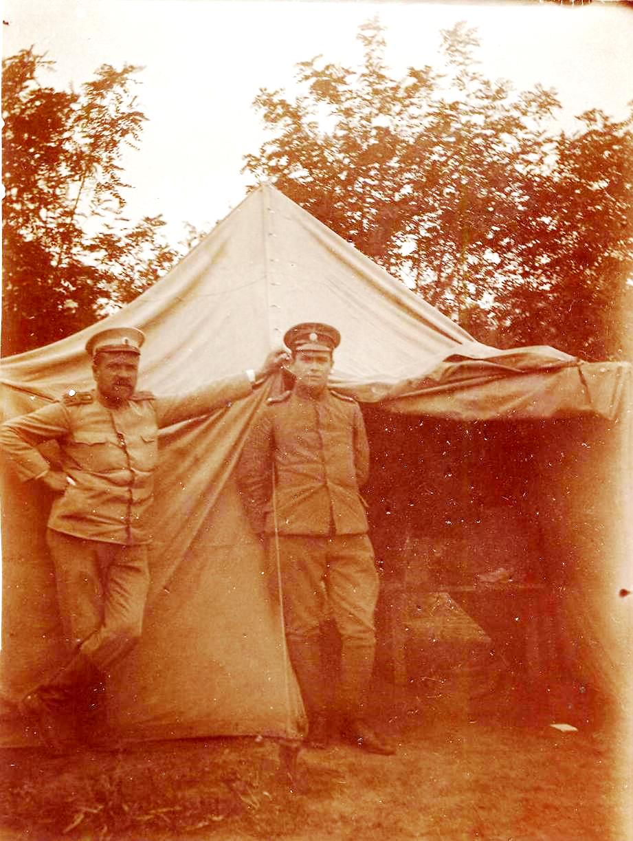 Bulgarian medical doctor Paraskev Stoyanov